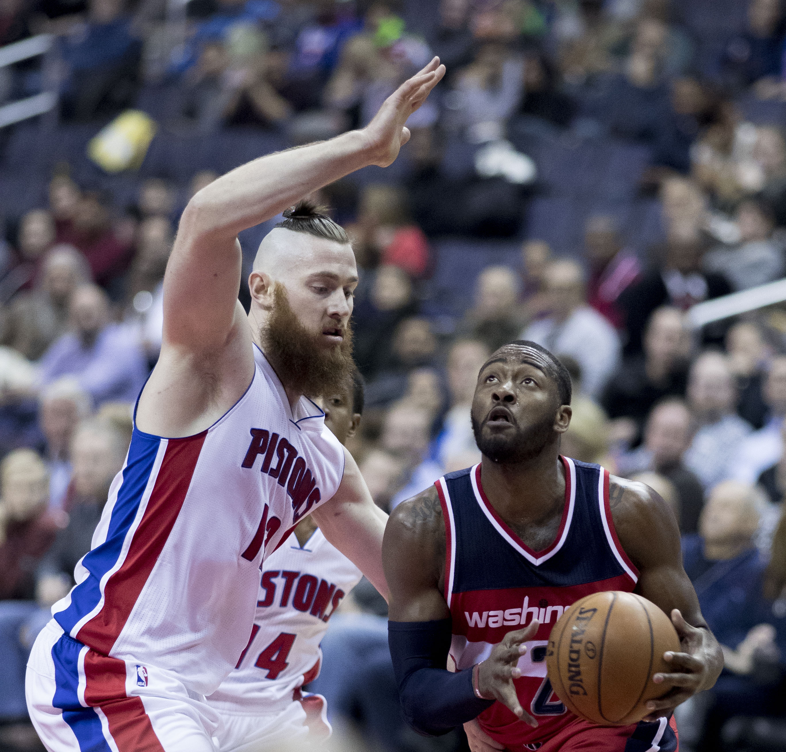 Pistons at Wizards 12/16/16